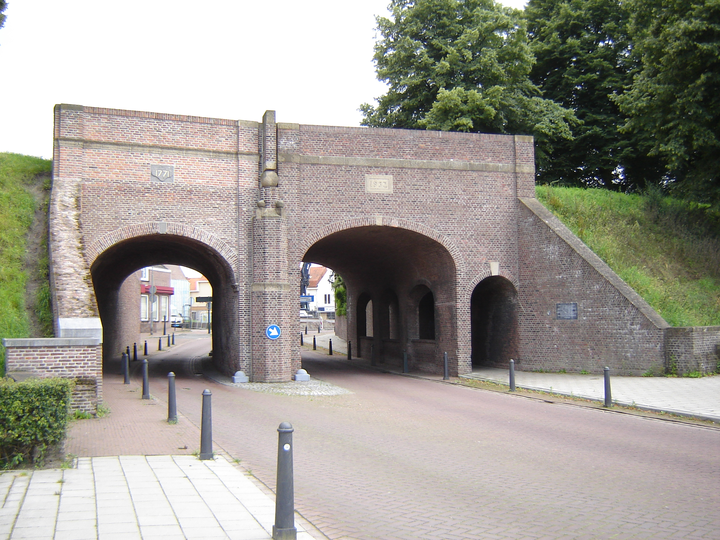 Dubbele Poort city gate in Hulst. Hulst, Zeeland, Netherlands.